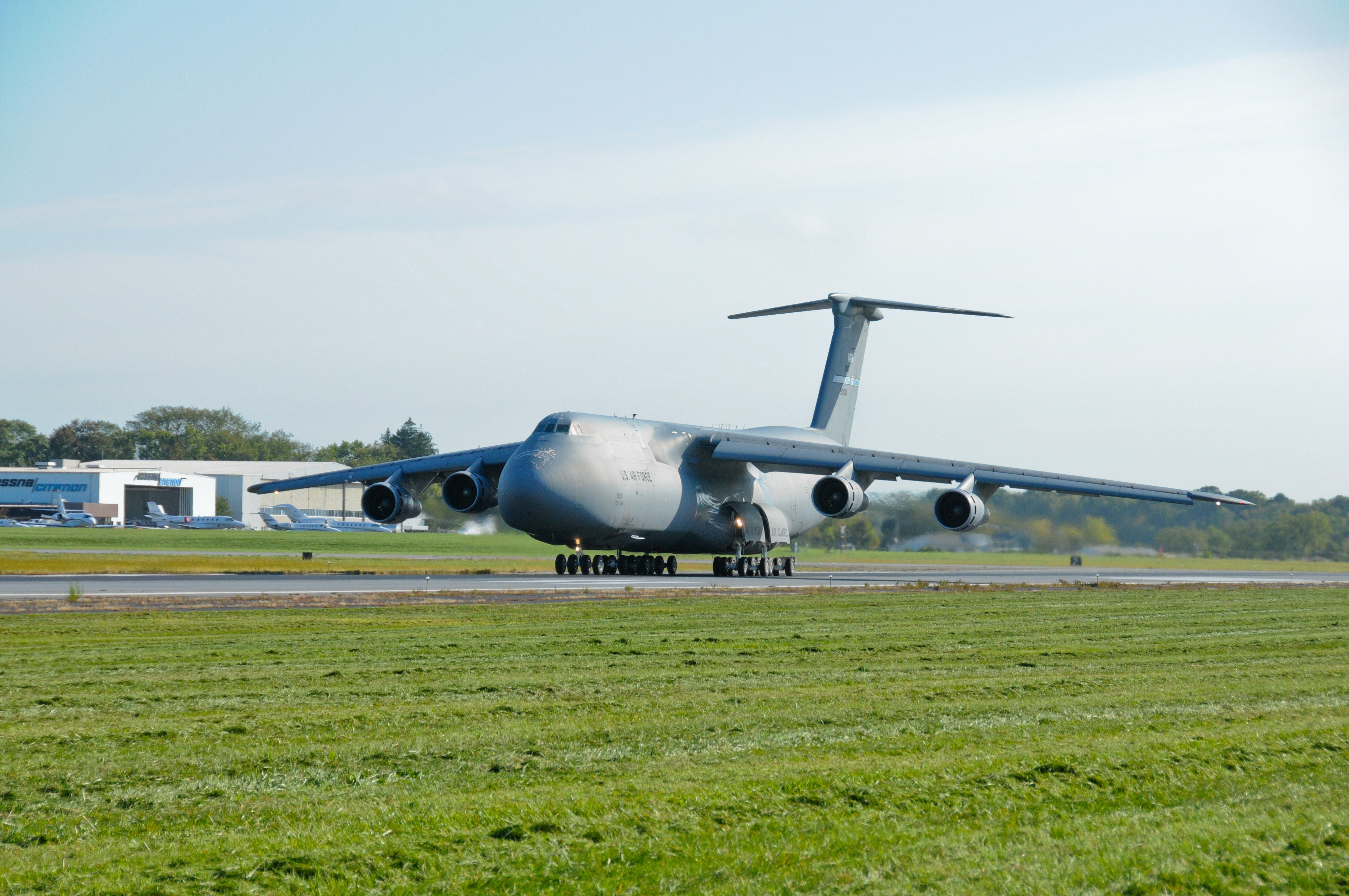 STEWART ANGB, Newburgh N.Y. --The last 105th Airlift Wing based C-5A Galaxy, tail number 0001, on take-off roll leaving its Hudson Valley home for the last time Sept. 19, 2012. (National Guard photo by Tech. Sgt Michael OHalloran)(Released)